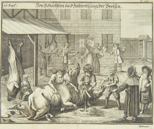 Illustration from Juedisches Ceremoniel, a German book published in Nürnberg in 1724 by Peter Conrad Monath. The book is a beautifully illustrated description of Jewish religious ceremonies, rites of passage and feast days, which first appeared in 1716, here in its second edition of 1724. The extremely detailed plates, by Georg Puschner, depict priestly robes, the celebrations of the New Year, Passover, the weekly Sabbath, circumcision, presentation of the first born, prayer at the synagogue, a wedding procession and a wedding, purification of the bride, the washing of the brother-in-law's feet, the feast of reconciliation, death rites, burials, as well as the procedures for other Jewish customs.